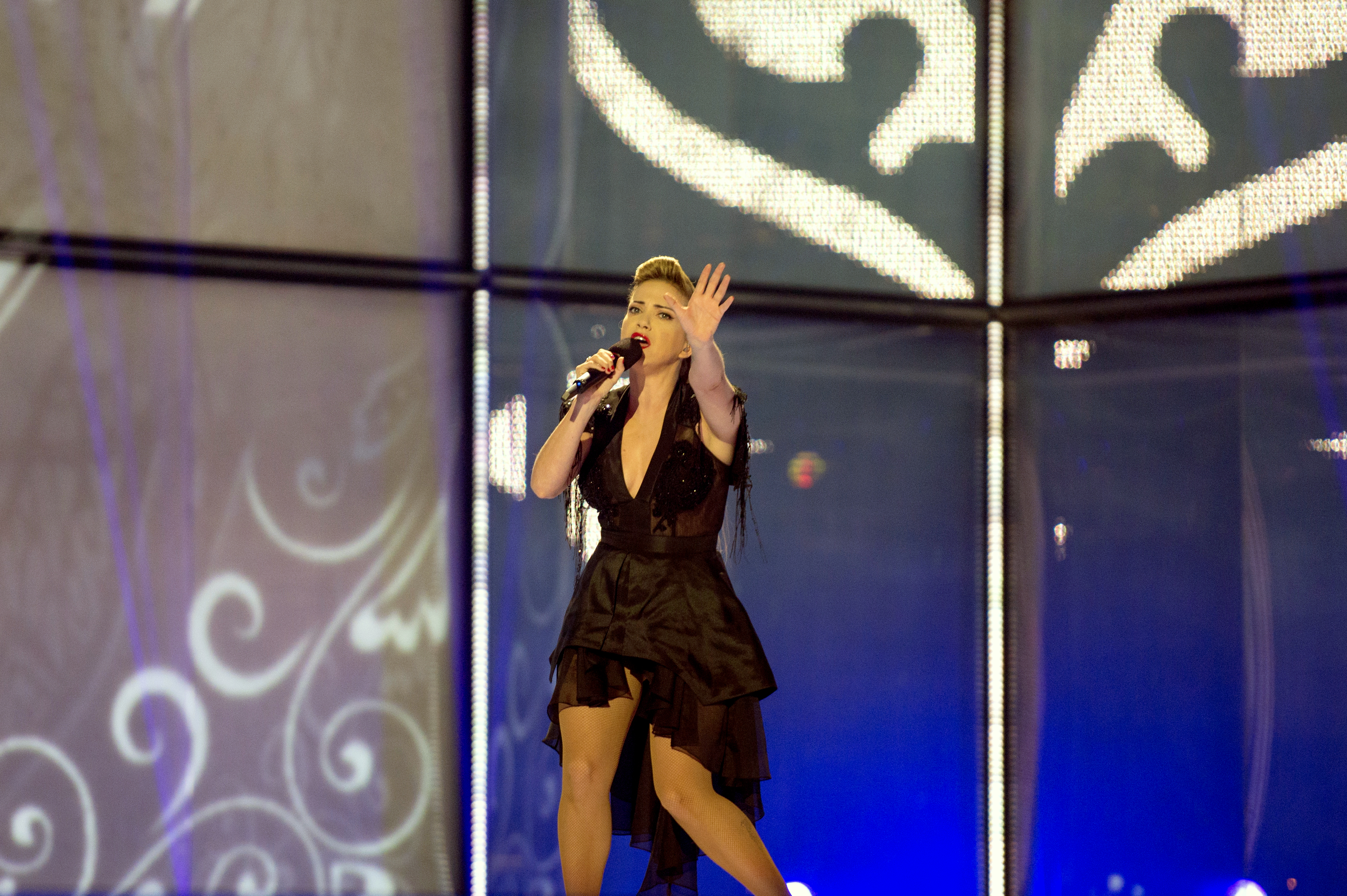 Mei Finegold representing Israel with the song "Same Heart" during the first dress rehearsal of the second semi final of the Eurovision Song Contest 2014 Copenhagen. (Help translate this text)